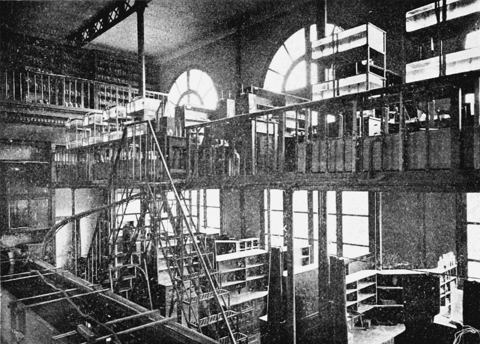 Work stations in the laboratory Text reads The laboratories contain accommodation for over fifty scientific men to work, and each such work-place, known technically as a table,consists either of a small room or of an alcove or a portion screened off from a larger room. Such tables are rented at £100 a year, not to individuals,but to states or universities or committees, and of the fiftyfive tables at present available about thirty-four are permanently engaged thus bringing in a considerable annual subsidy to the administration. Germany takes some ten of these tables, and Italy seven.There are, I believe, three American tables one belonging to the Women's Association and there are three English (rented by the Universities of Cambridge and Oxford and the British Association respectively),consequently there are generally about half-a-dozen English and American biologists at work in the station; but Dr. Dohrn interprets in a most liberal spirit the rules as to the occupancy of a table, and, as a matter of fact, during a recent visit of the present writer there were, for a short time, no less than three of us on the books occupying simultaneously the British Association table, but in reality all provided with separate rooms File:PSM V77 D228 The laboratory of an investigator.png Figure and text from THE GREATEST BIOLOGICAL STATION IX THE WORLD.By Professor W. a. HERDMAN, F.R.S., UNIVERSITY COLLEGE,- LIVERPOOL.THE POPULAR SCIENCE MONTHLY.SEPTEMBER,1901.